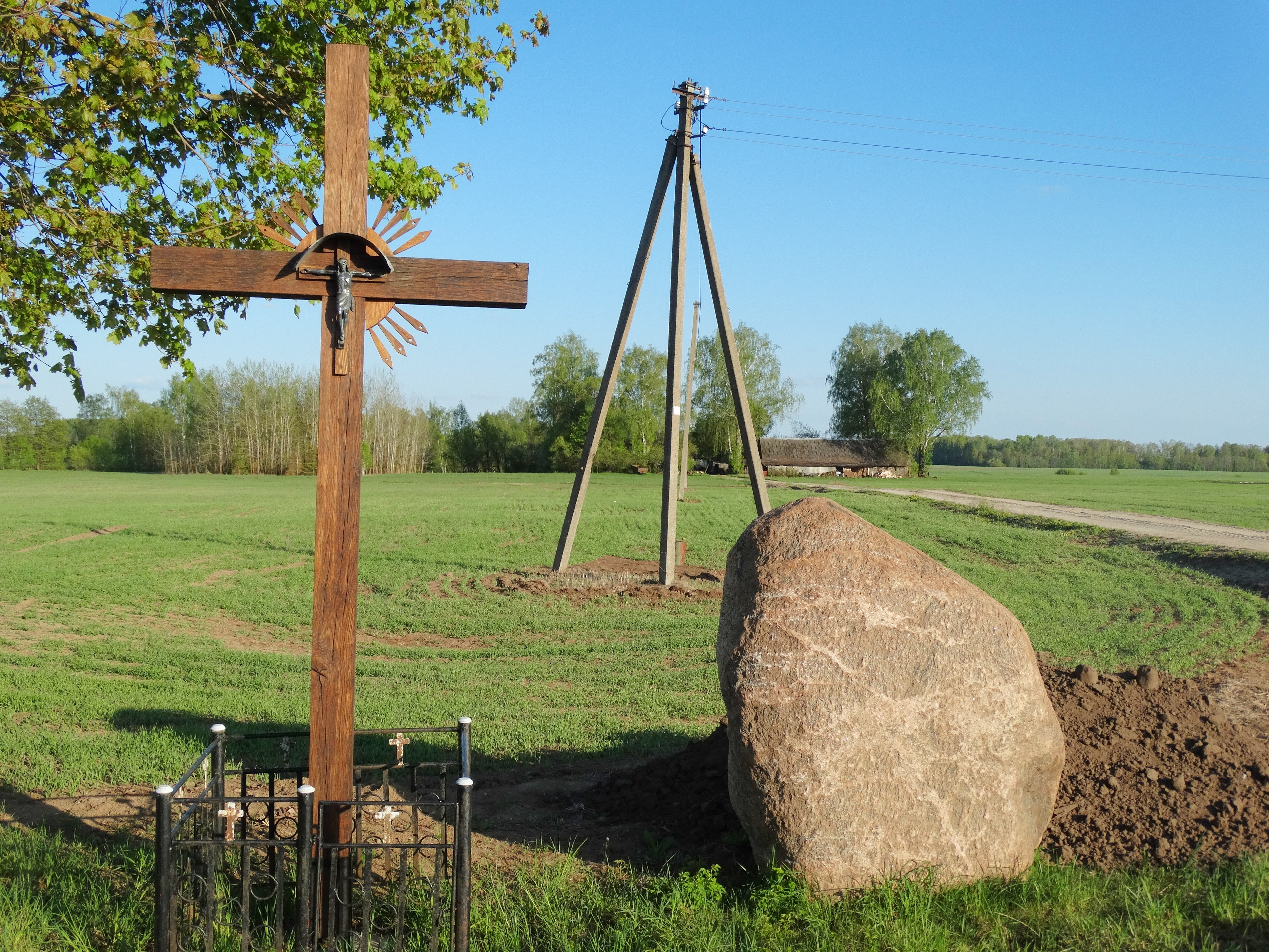 Vabaliai, Radviliškis District, Lithuania